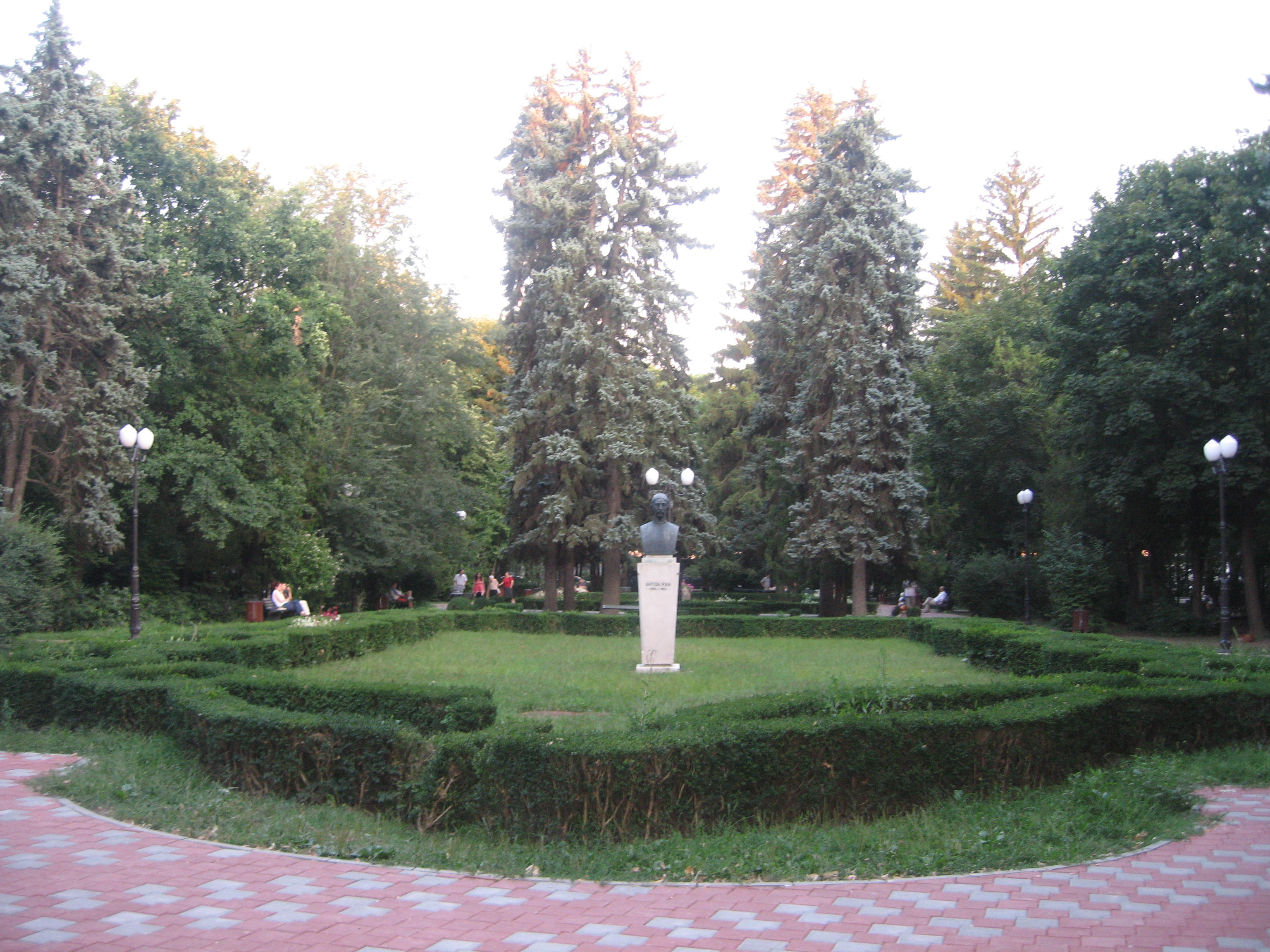 Parcul Expoziţiei din Iaşi